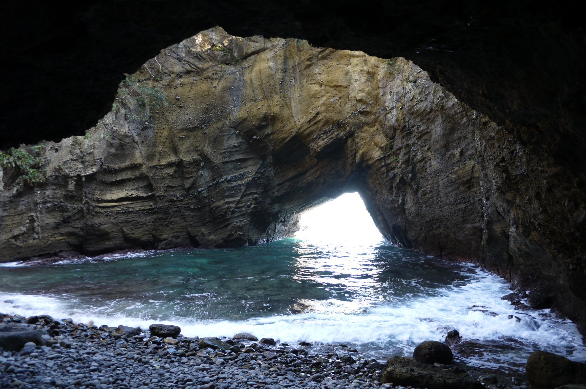 Ryugu Sea Cave in Simoda, Shizuoka prefecture, Japan.